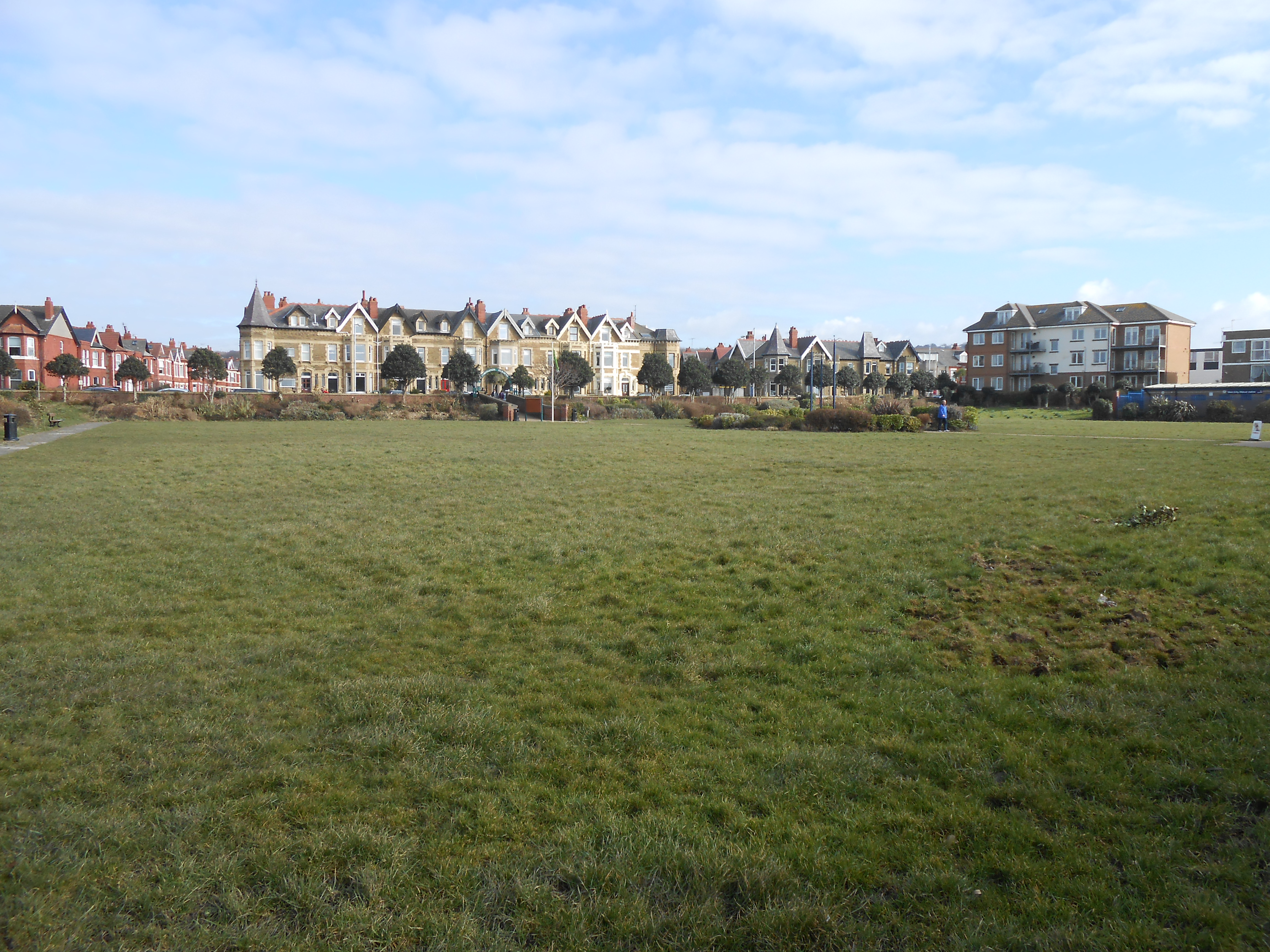 Photo taken at Coronation Gardens, West Kirby, Wirral, Merseyside, England.